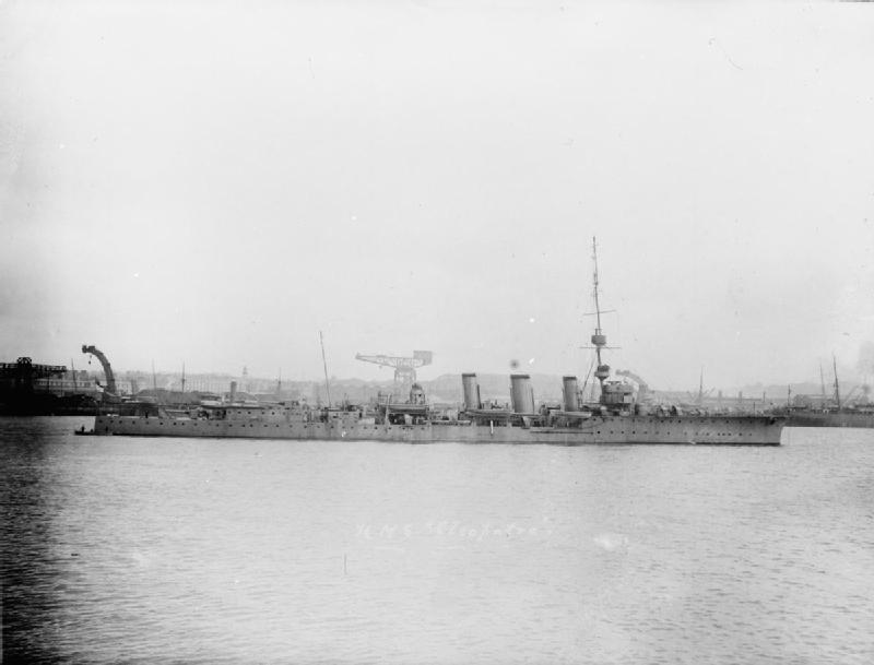 British light cruiser HMS CLEOPATRA.